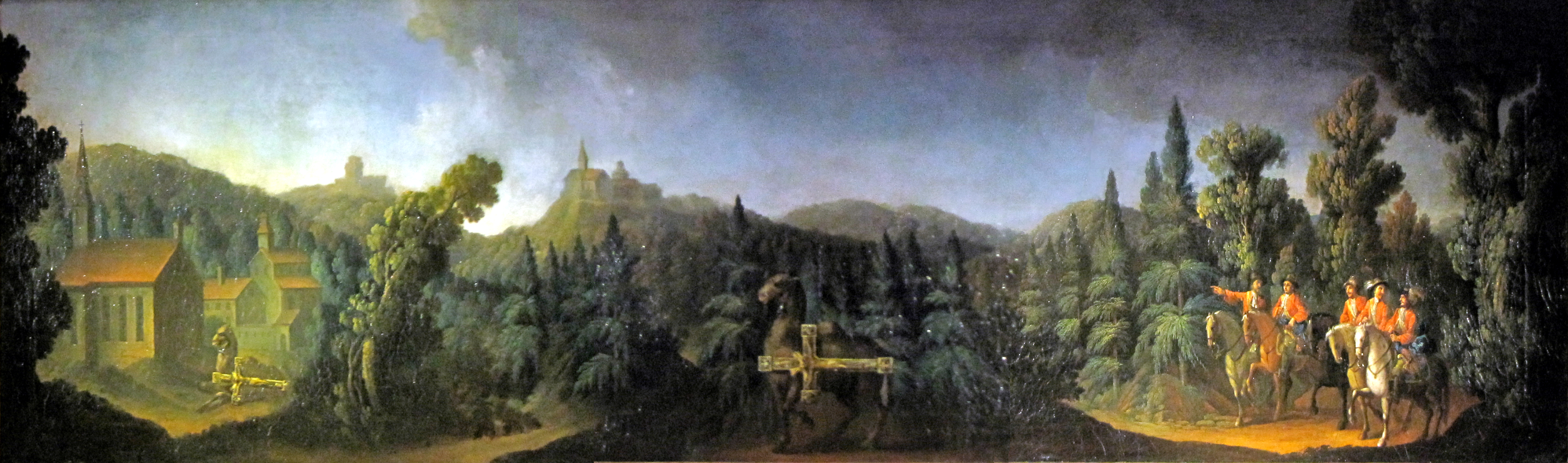 Painting in the Eglise des Jésuites in Molsheim, Bas-Rhin, France. Legend of the creation of the Niedermunster of the Mont Sainte-Odile. It was created with 3 photos (because of light conditions). It is not a faithful reproduction of the original painting